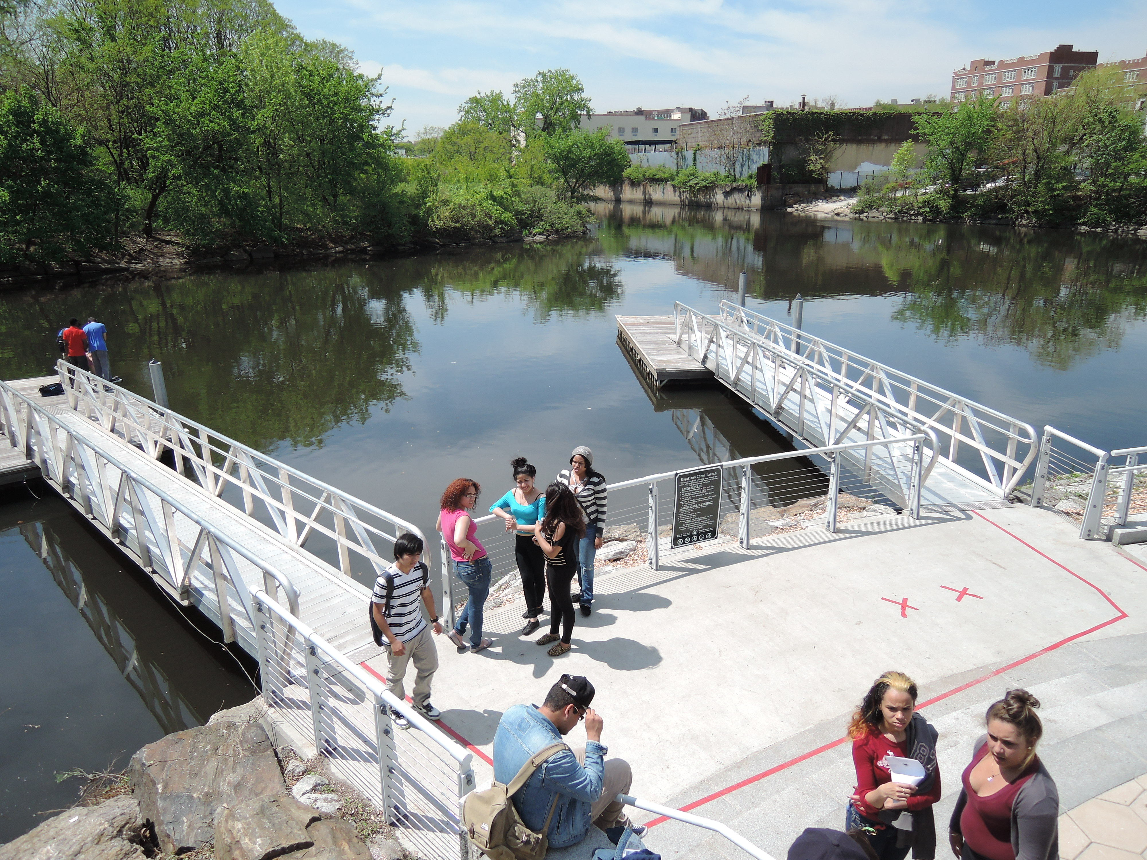 Looking southwest at boat dock on a sunny midday.